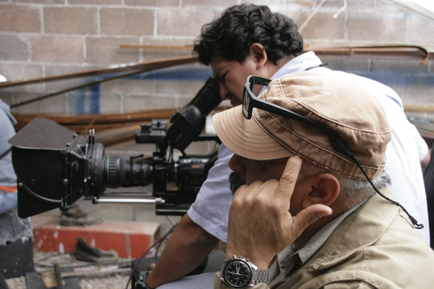 Luis Kelly Dirigiendo